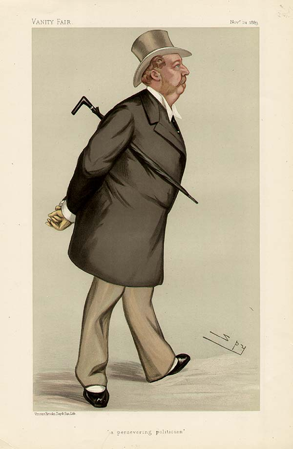 Caricature of Edward Leeson, 6th Earl of Milltown. Caption read "a persevering politician".